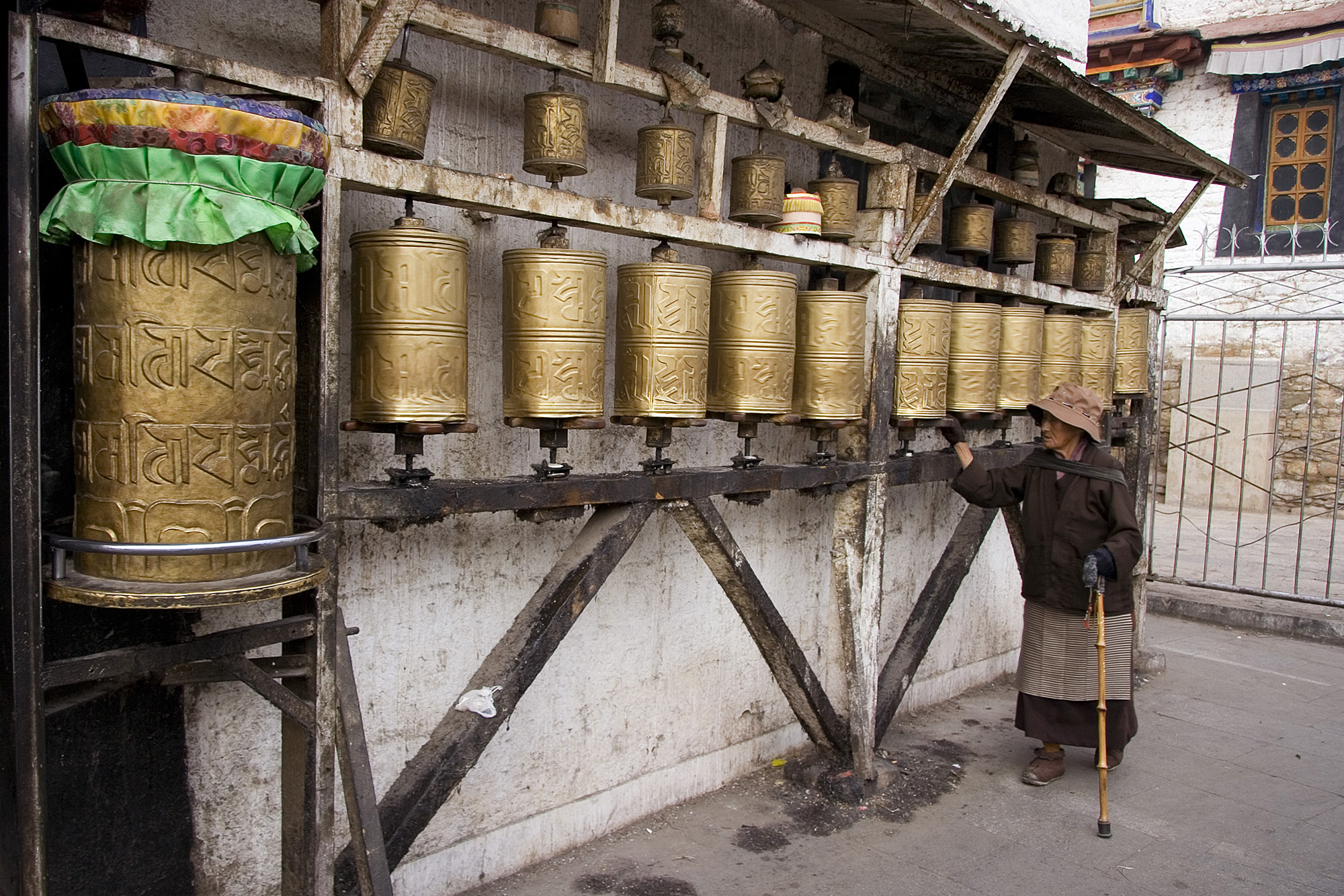 Barkhor: The prayer circuit (Kora) around the Jokhang Temple in the center of Lhasa, Tibet